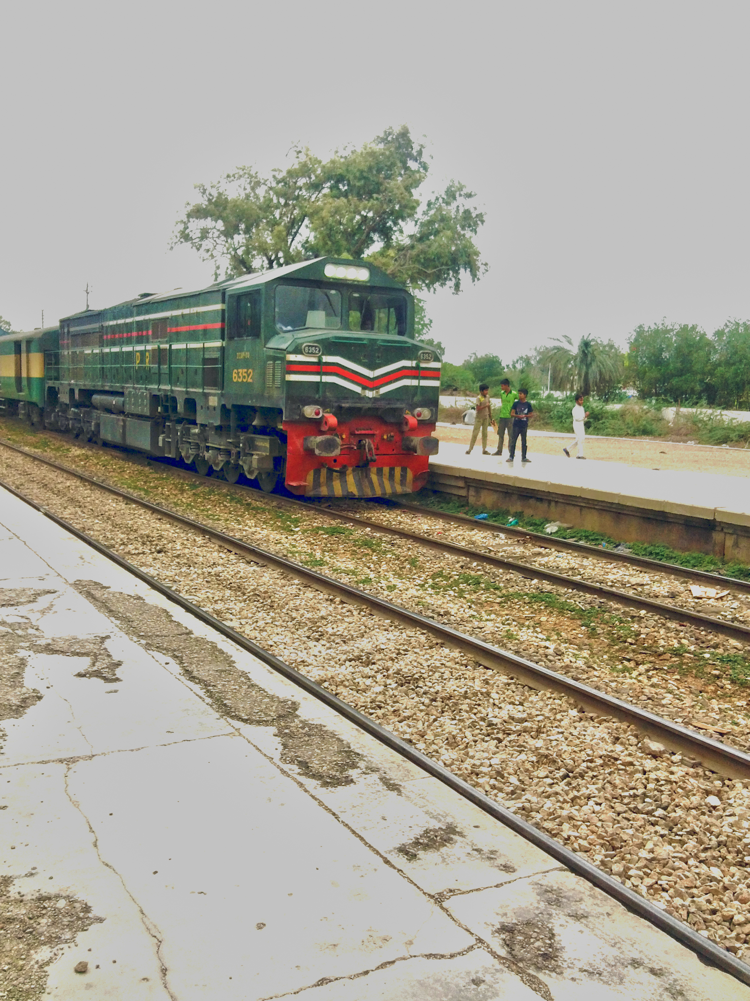 Pakistan Railways Locomotive